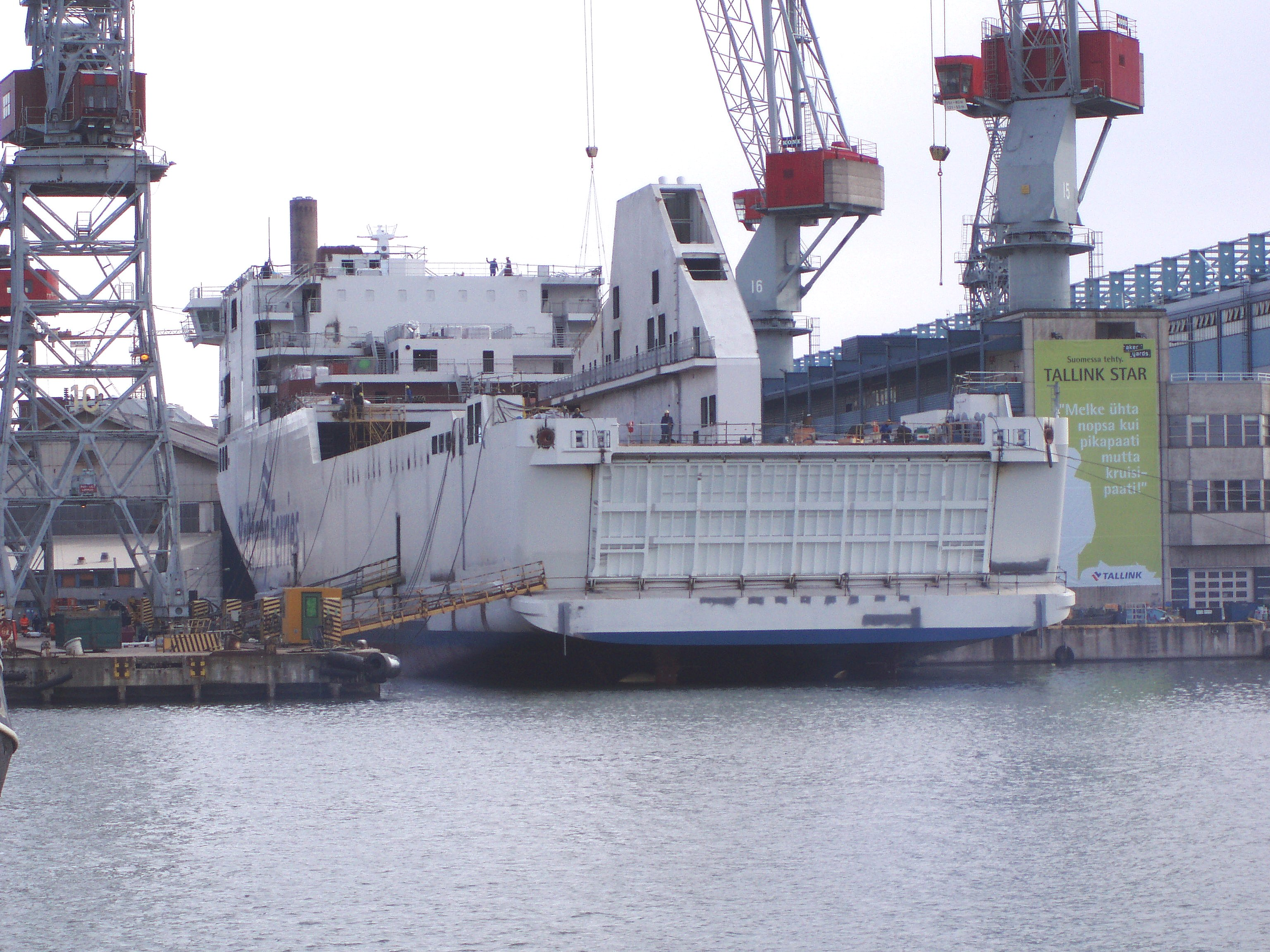 Brittany Ferries M/S Cotentin under construction aker Aker Finnyards Hietalahti Shipyard, Finland, 19. April 2007. IMO Number: 9364978 MMSI Number: 228263800 Callsign: FMLX Length: 165 m Beam: 27 m Picture taken and uploaded by Kalle Id.